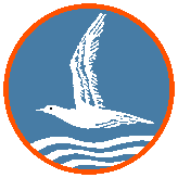 Badge of the Nationale Jeugdstorme